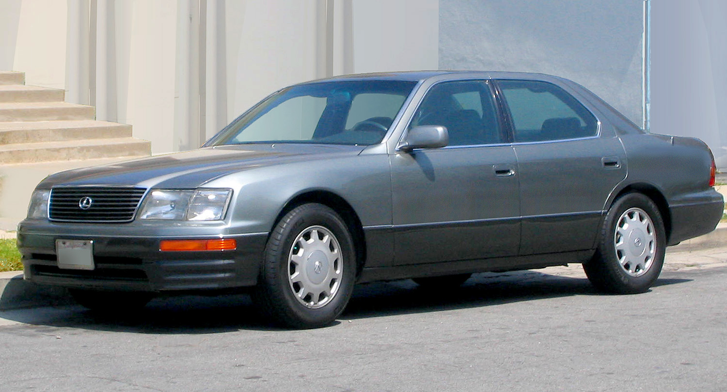 LS 400